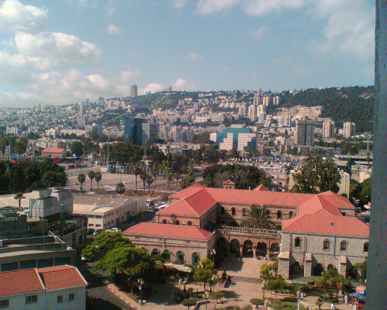 Haifa, viewed from Rambam Medical Center.